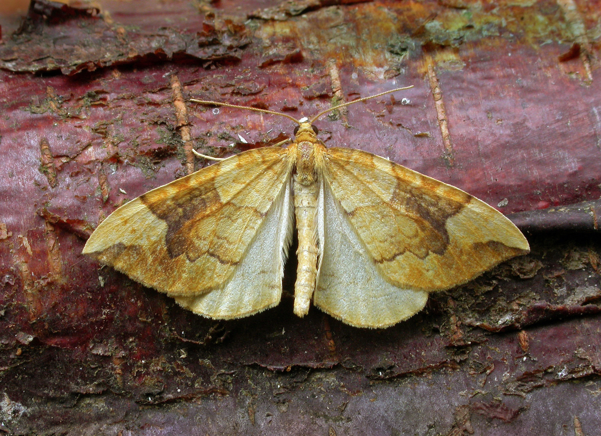 70.091 BF1756 Northern Spinach, Eulithis populata